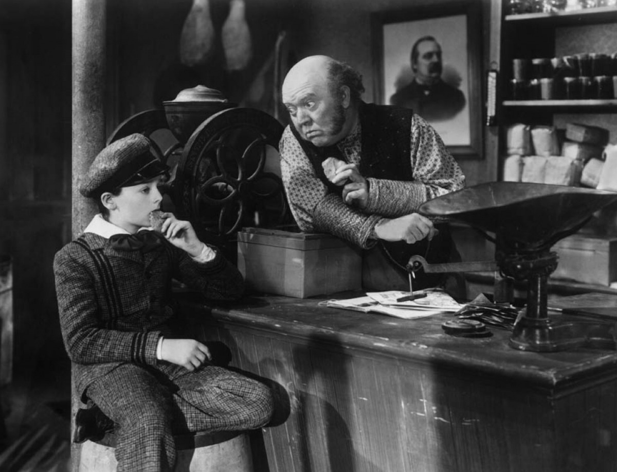 Freddie Bartholomew & Guy Kibbee in Little Lord Fauntleroy - cropped screenshot